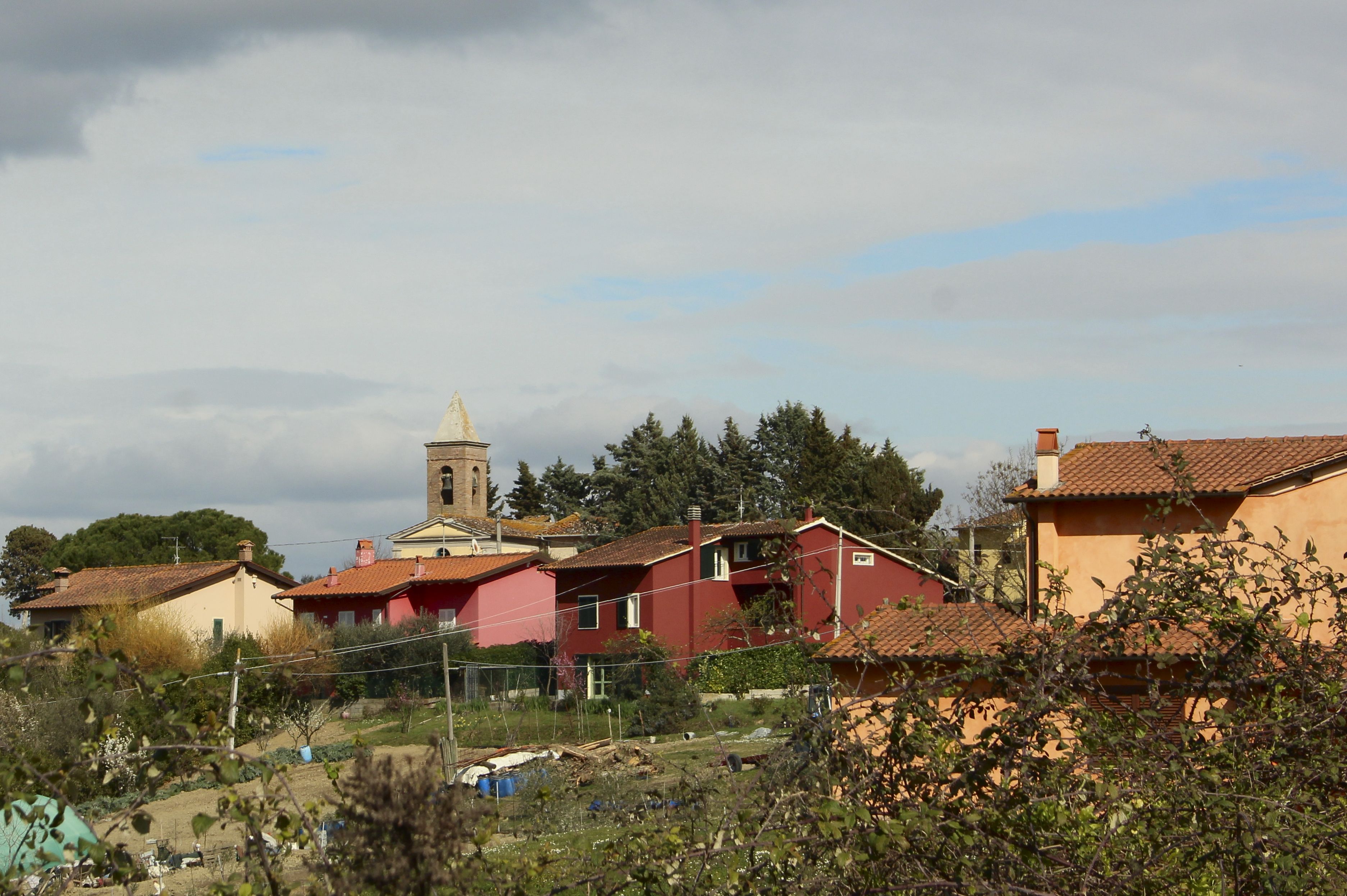 Cusignano, hamlet of San Miniato, Province of Pisa, Tuscany, Italy